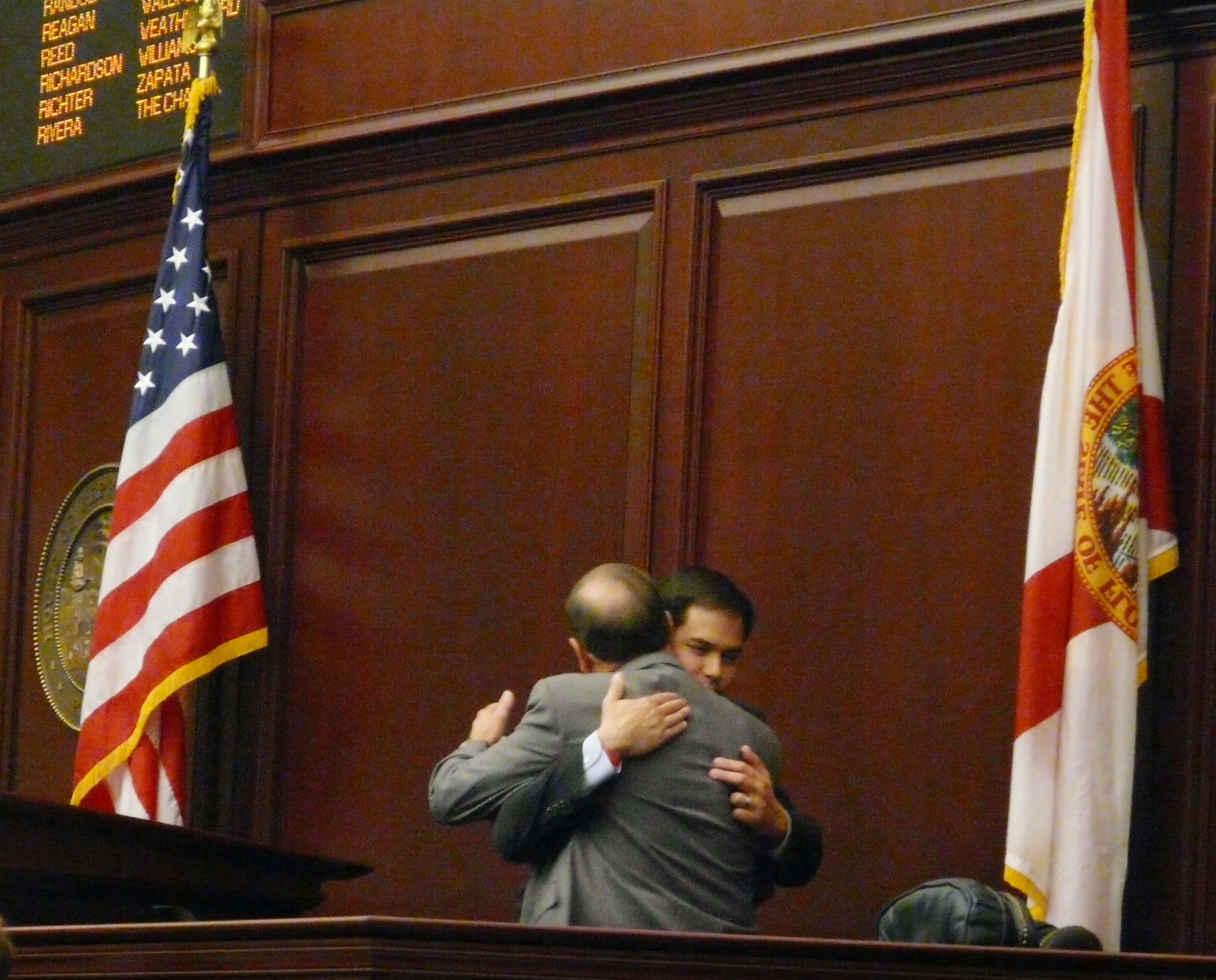 House Speaker Marco Rubio, R-Miami, right, and Senate President Kenneth Pruitt, R-Port St. Lucie, left, embrace after the House's unanimous approval of the Senate concurrent resolution expressing deep regret for slavery in Florida Wednesday, March 26, 2008, in Tallahassee, Florida.